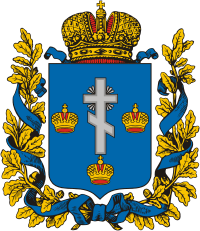 Coat of Arms of Kherson Governorate, Russian Empire